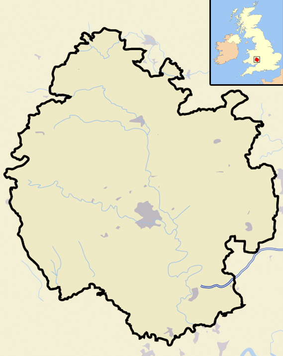 Map of the county of Herefordshire, England, United Kingdom